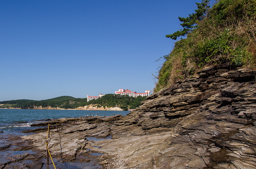 Byeonsan-bando